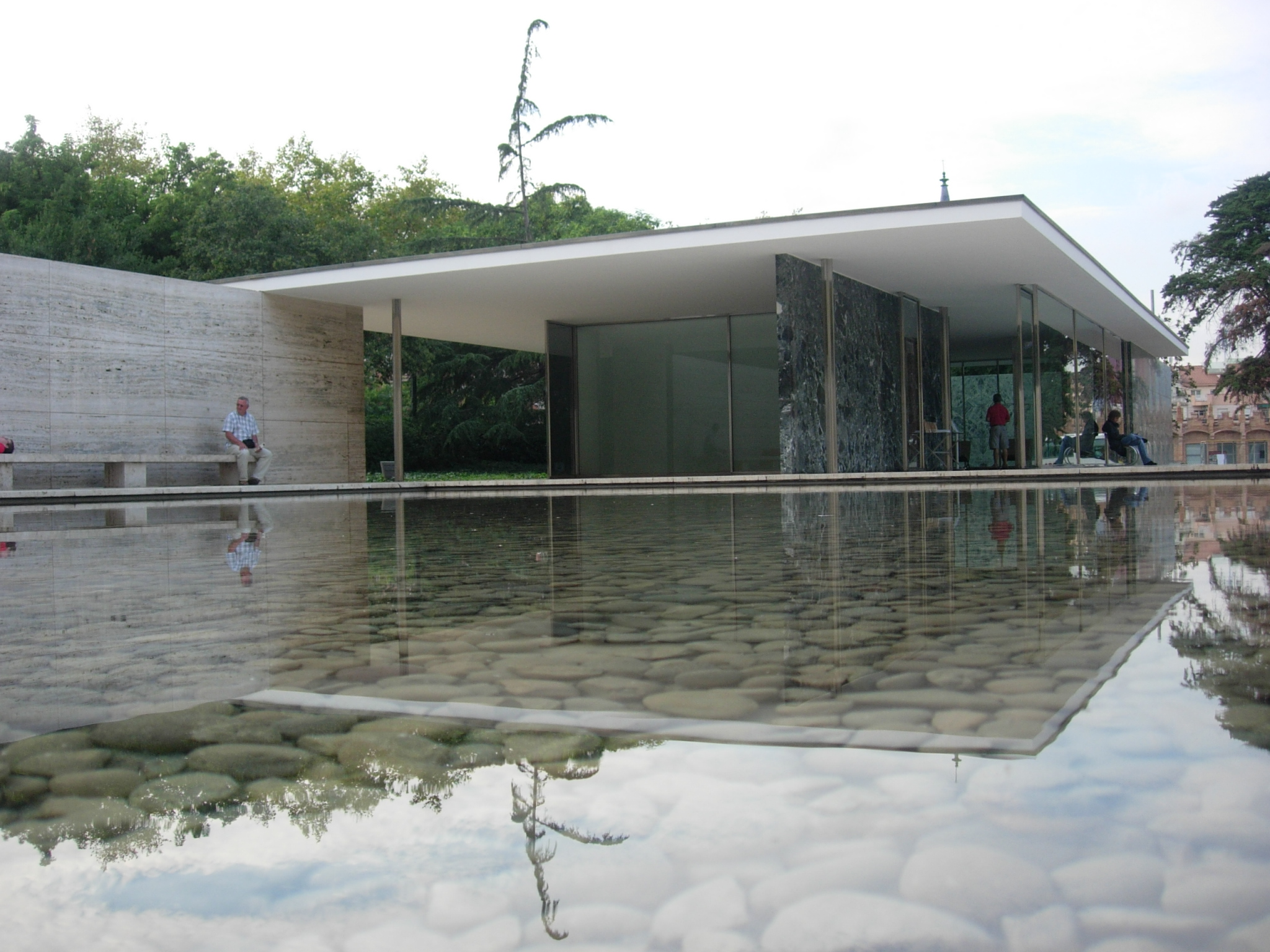 1929 Barcelona Pavilion reconstruction by Mies van der Rohe